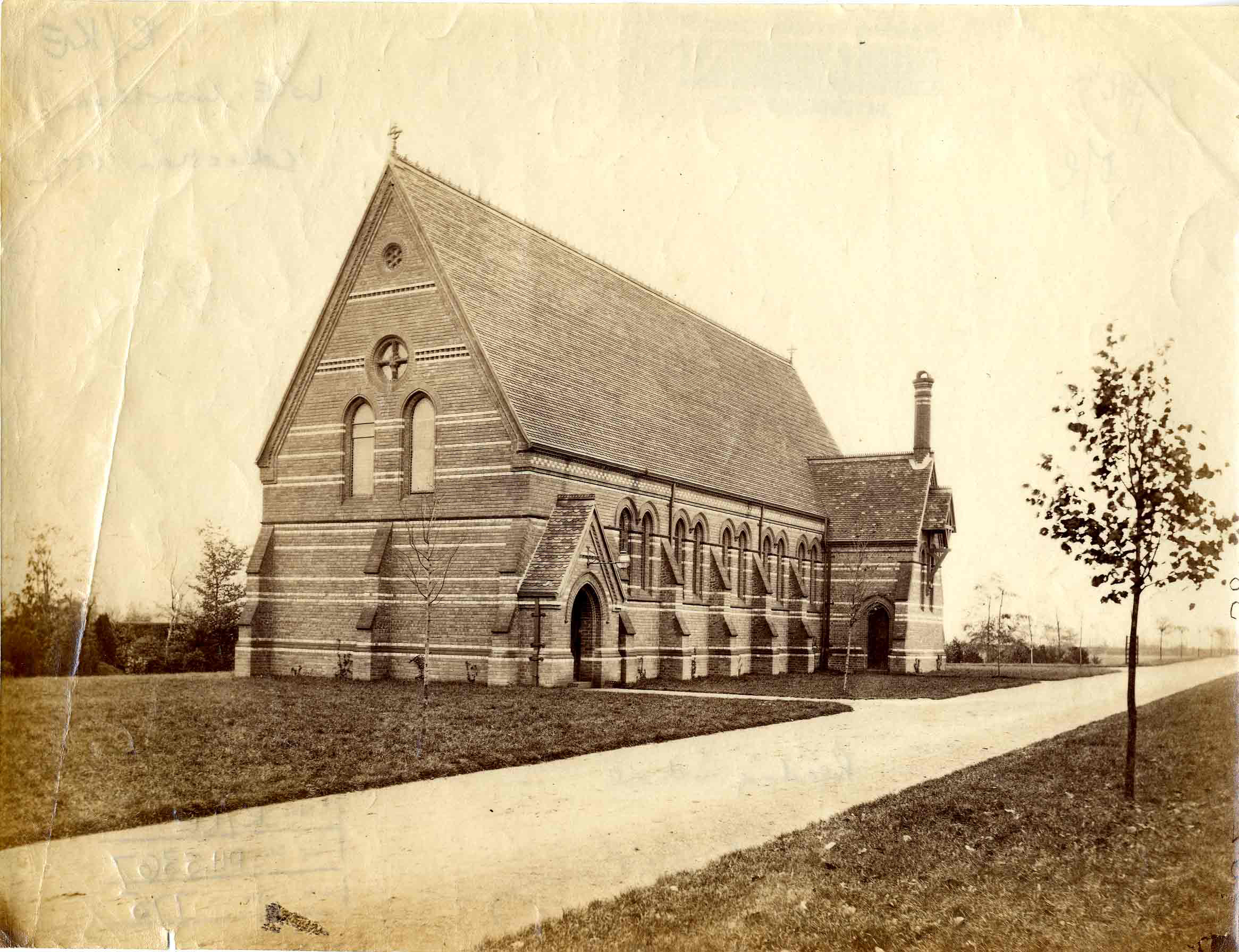 The chapel, Reading School, from the south-west, c. 1873. 1870-1879: photograph by H. W. Taunt, numbered 3348.